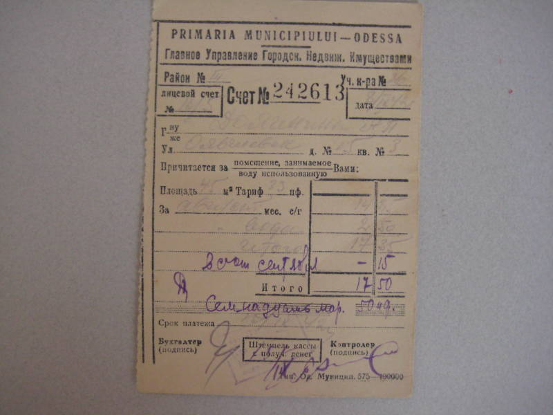 Community bill of Romanian Transnistria District (Capital in Odessa) duriing WWII